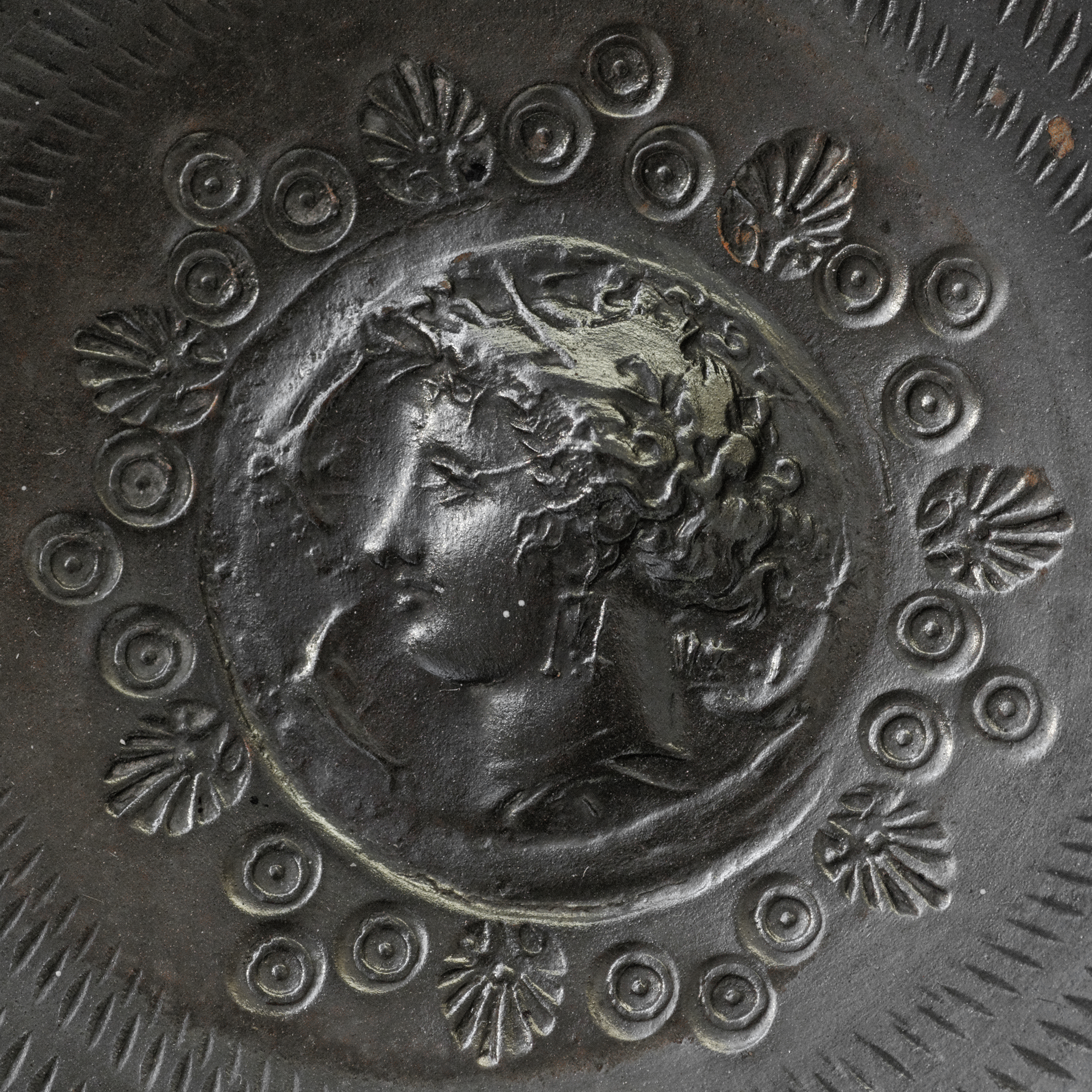 Head of Arethusa left surrounded with dolphins. Tondo of a black-glaze cup with stamped decoration, AD 4th-3rd centuries. From Campania?